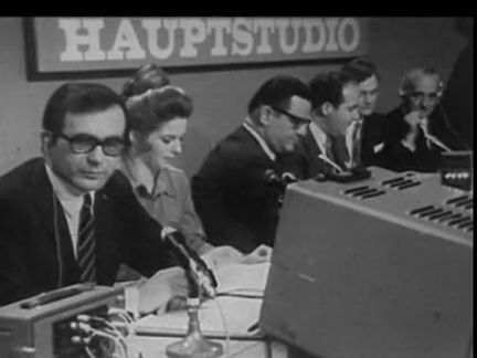 ORF TV broadcast of the national parliament elections (Nationalratswahl) on March 1st, 1970. First from left: Alfred Payrleitner (main anchor and deputy editor-in-chief of ORF); third from left: Alfons Dalma (editor-in-chief of ORF)